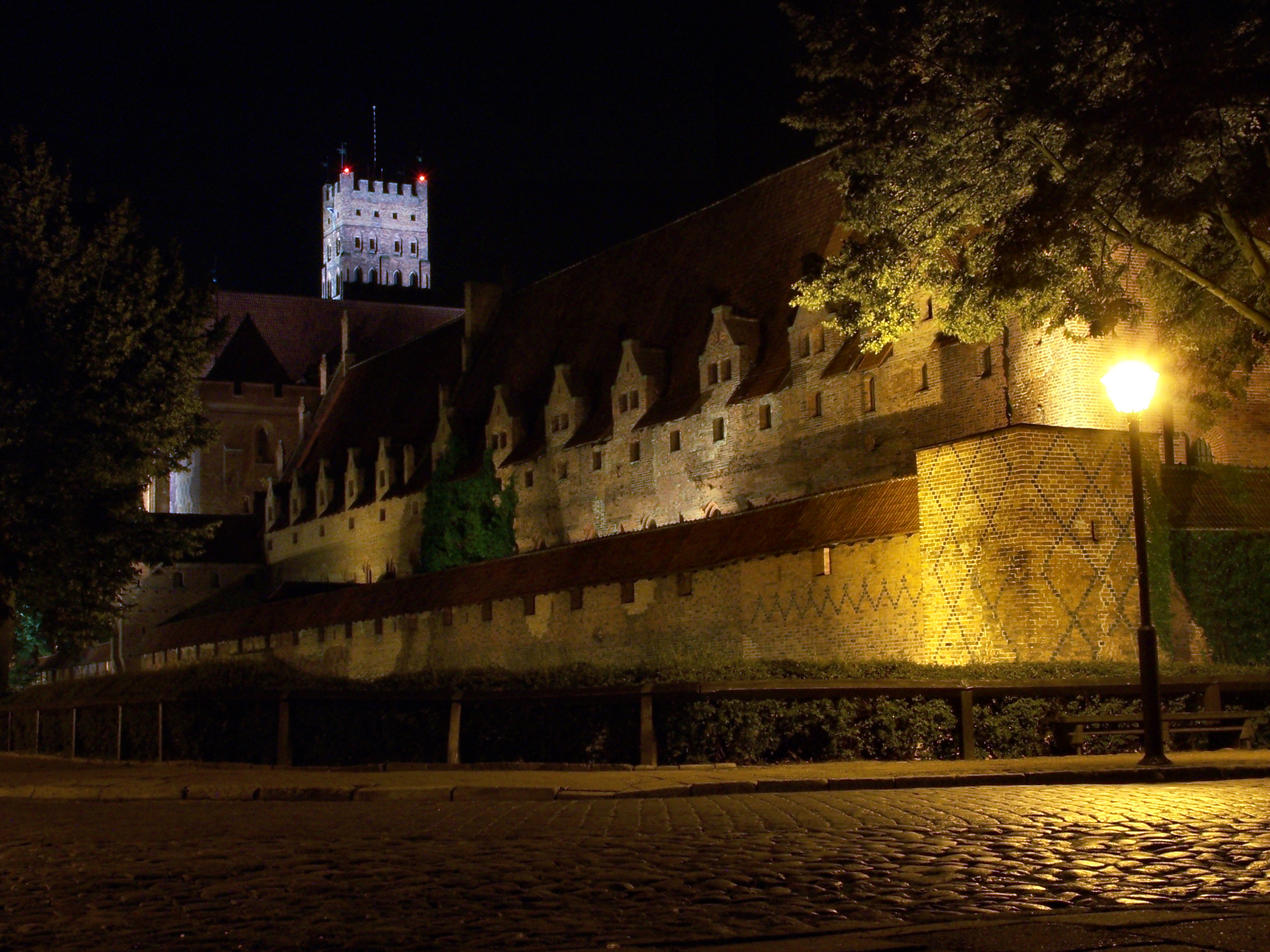 Castle in Malbork by night.